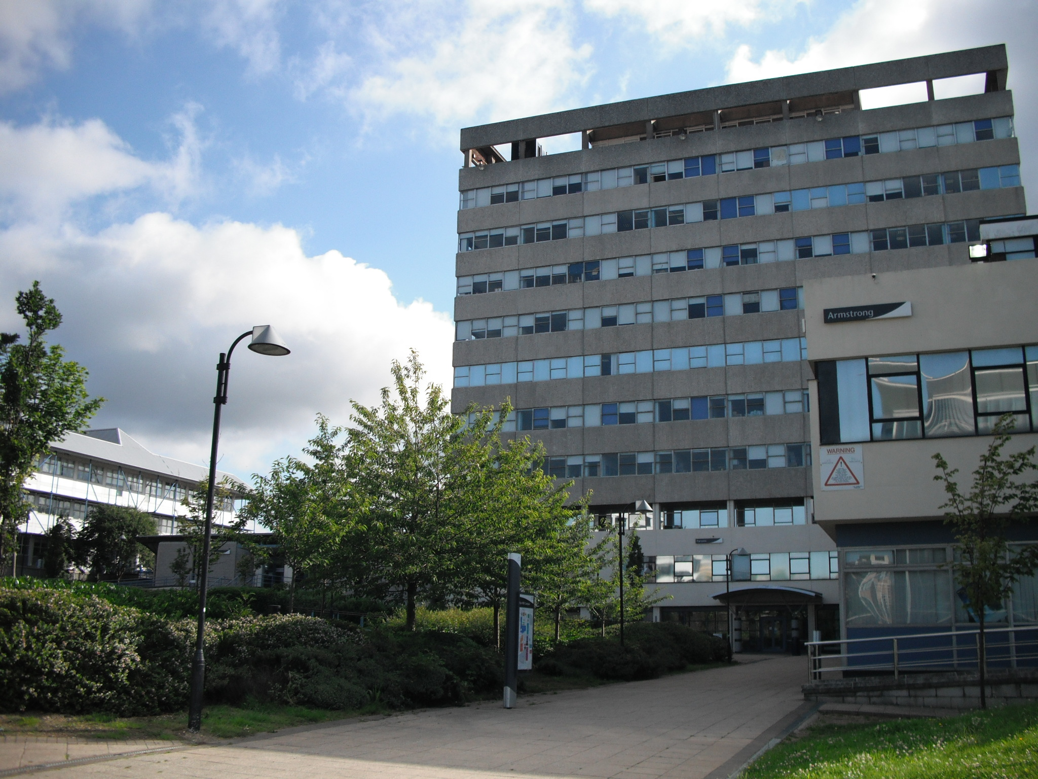 The Parsons Building at the main campus of Newcastle College, Newcastle upon Tyne, England.